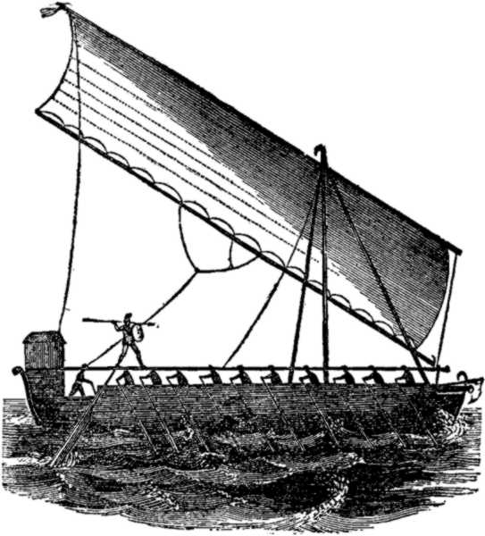 A Piratical Proa in Full Chase as depicted in The Pirates Own Book by Charles Ellms.